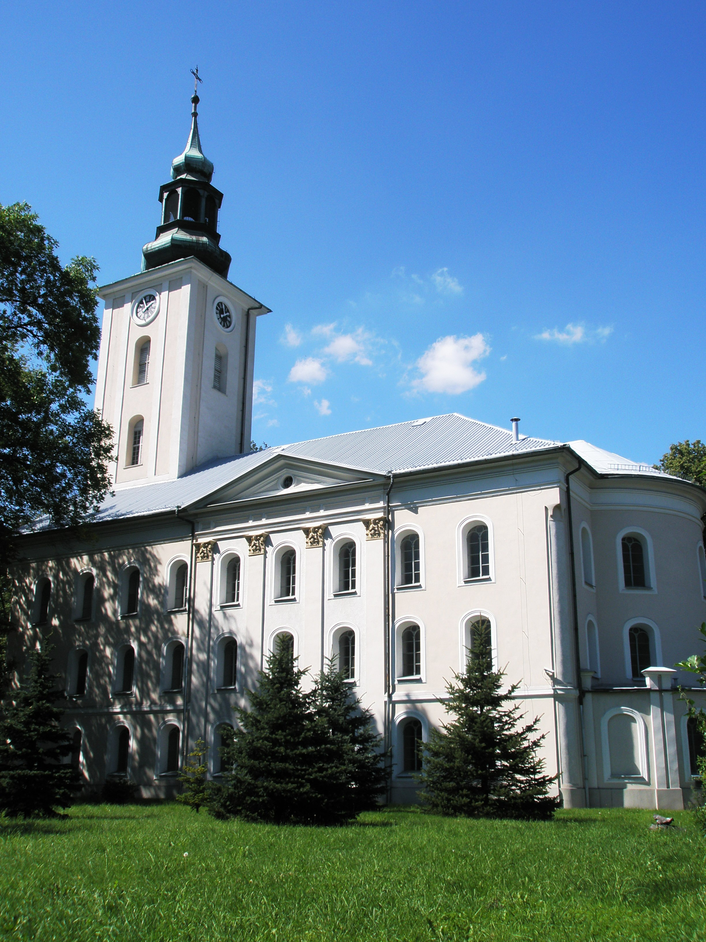 Lutheran Church in Stare Bielsko, Poland